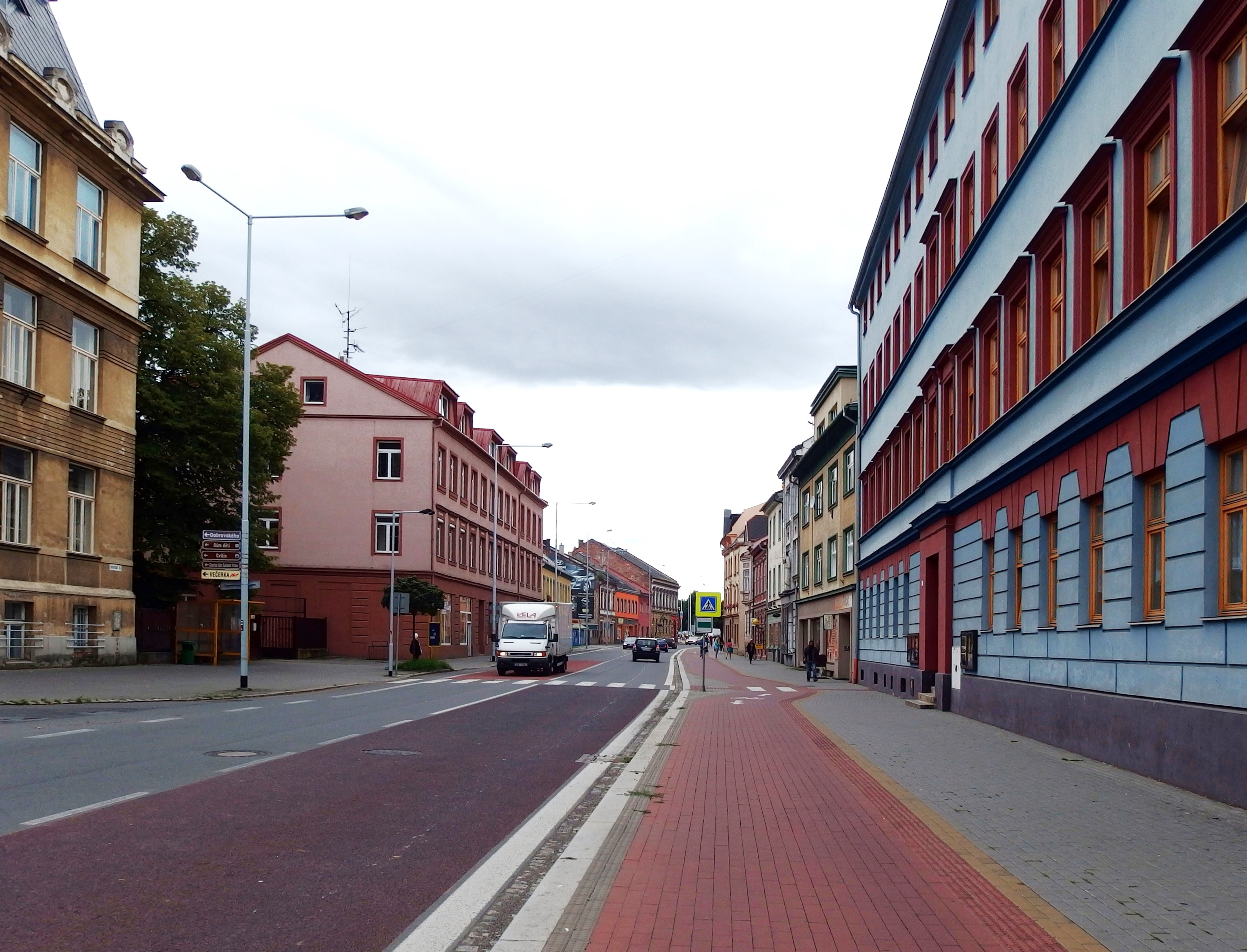 Krnov, Bruntál District, Czech Republic, part Pod Cvilínem.